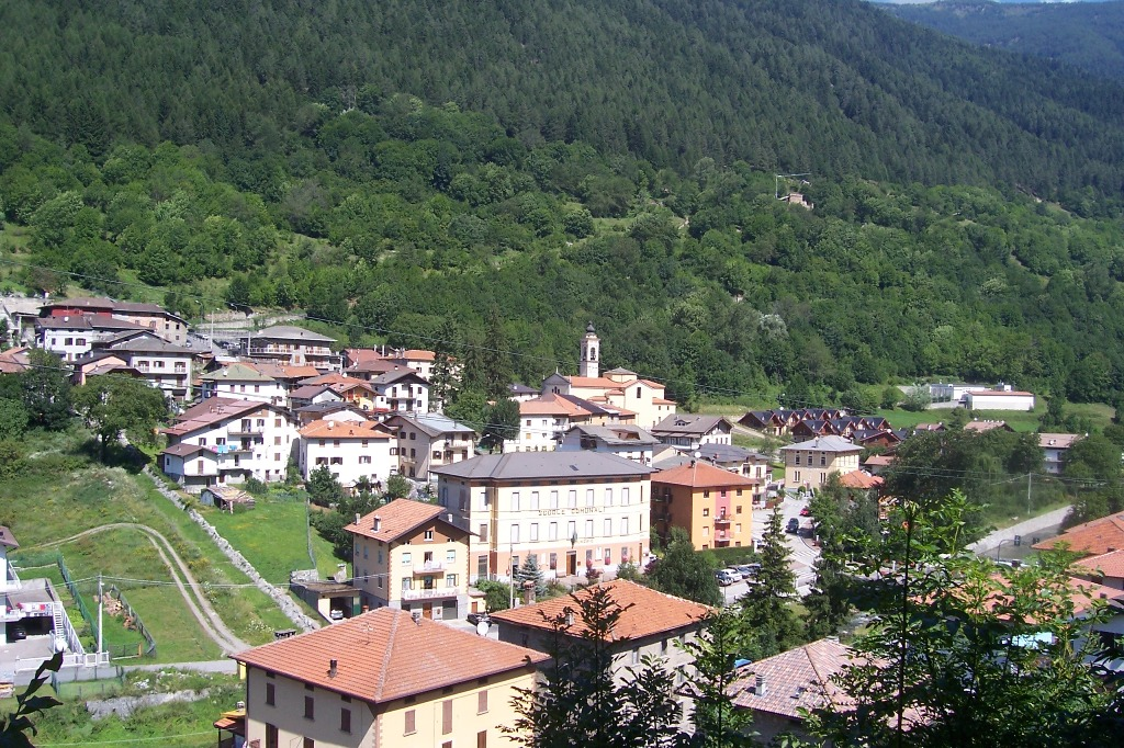 Panorama. Incudine Solivo side, Val Camonica, Italy